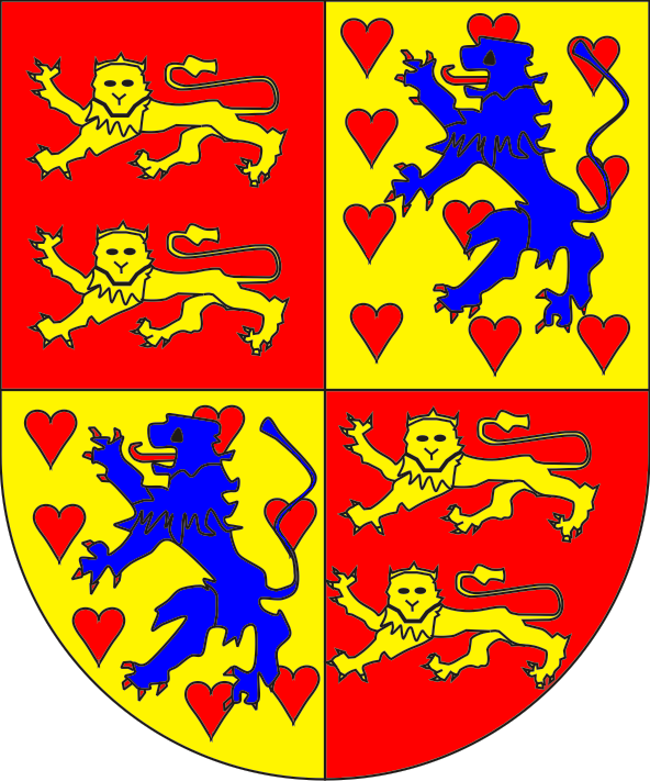 Coat of arms of the duchy of Brunswick-Lüneburg; 1,4: duchy of Brunswick; 2,3: duchy of Lüneburg